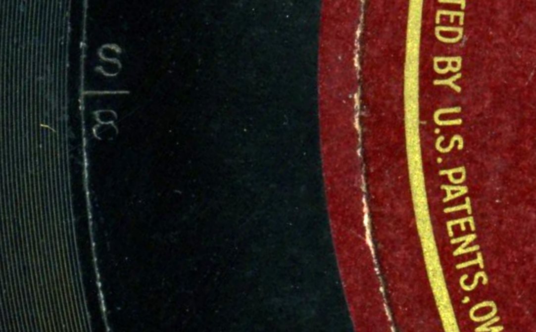 Scan of the S/8 mark from a 78rpm shellac disc No. 89031 manufactured by the Victor Talking Machine Co to identify a dubbing.